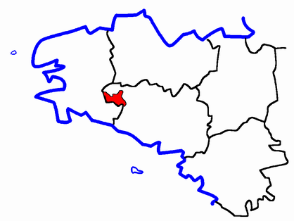 Description: Map for localisazion of cantons of Bretagne region in France Source: made by Hervé Tigier in april 2005 from another large map (published in 1990)